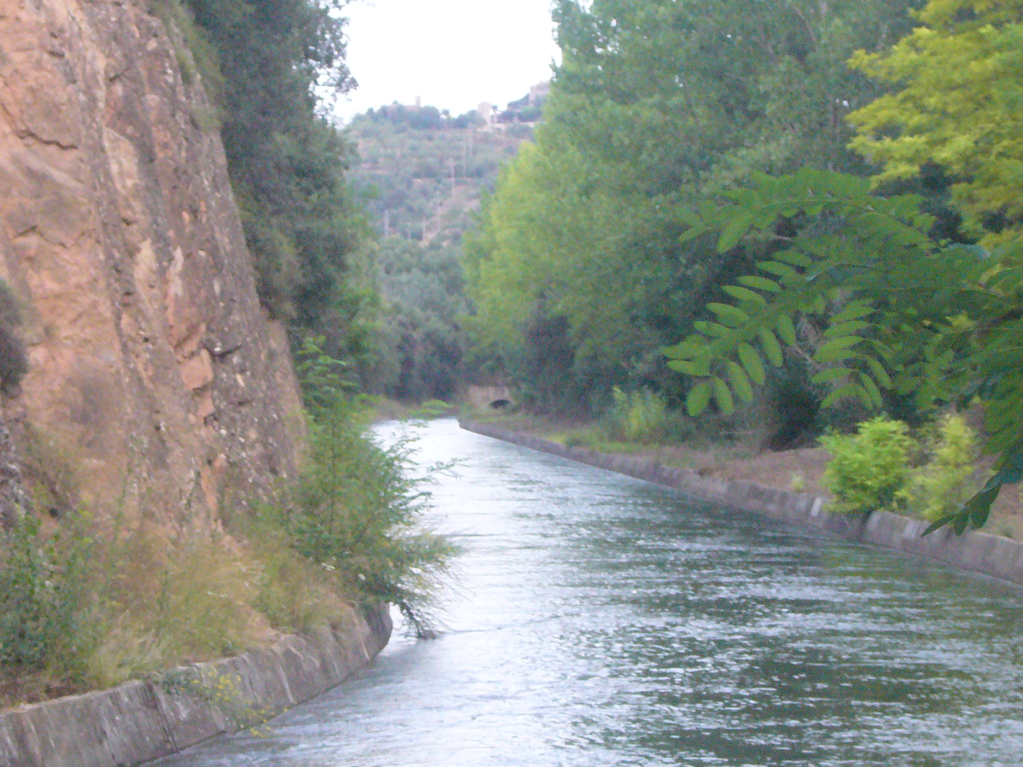 Water of "Canal d'Urgell" just a few meters before entering the "mina de montclar", a 5 km long tunnel.